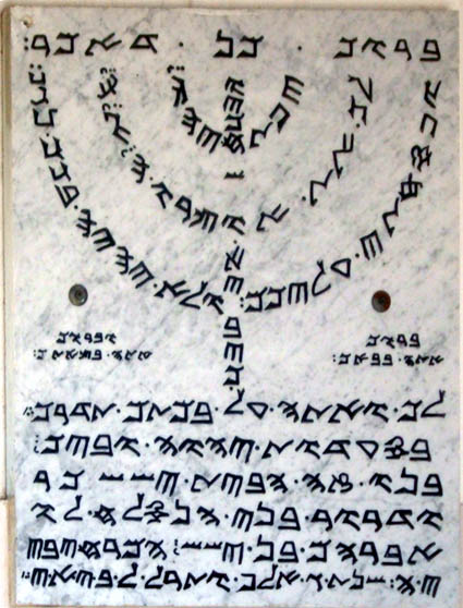 A Samaritan mezuzah including a calligraphic menorah